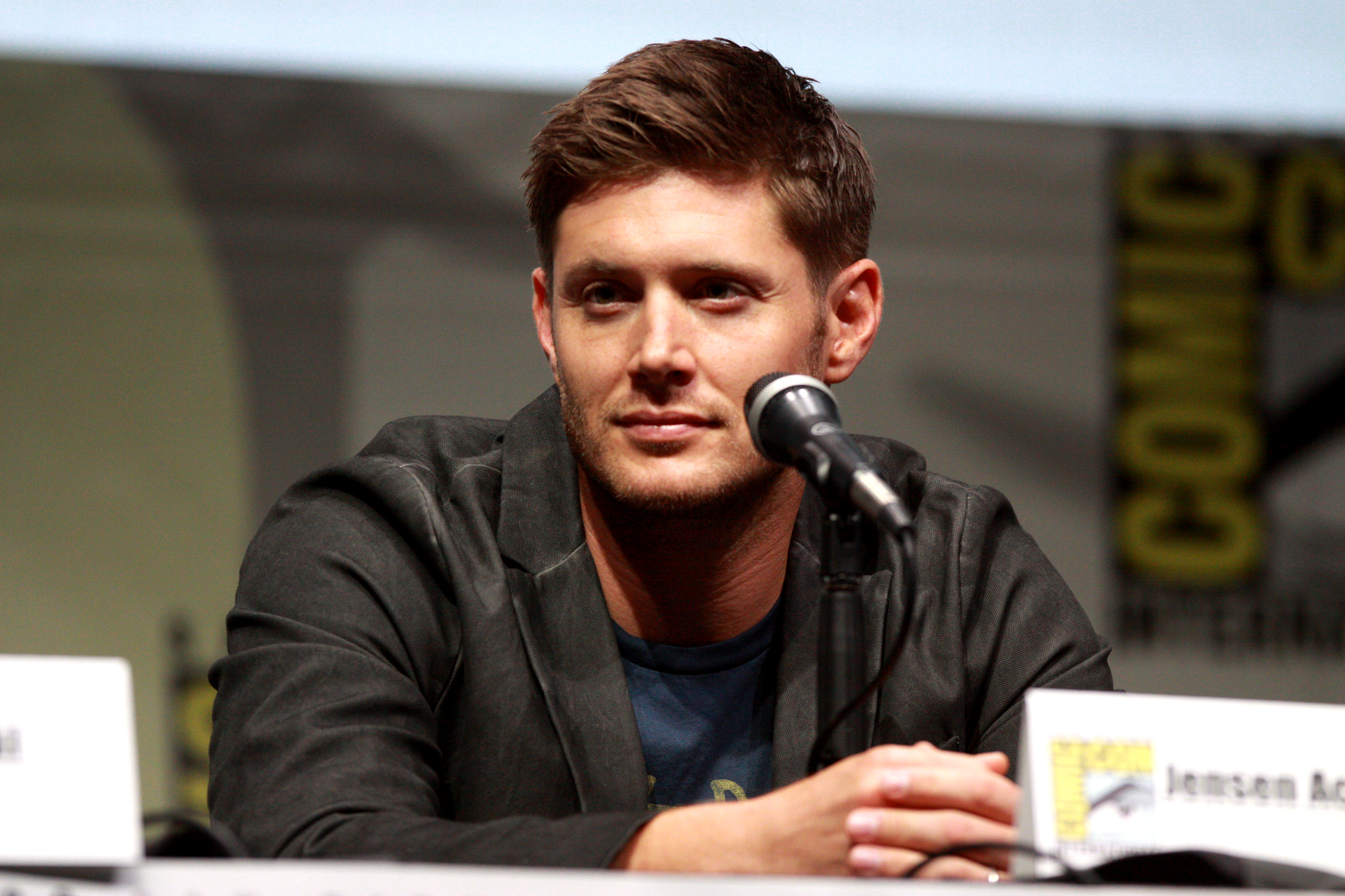 Jensen Ackles speaking at the 2013 San Diego Comic Con International, for "Supernatural", at the San Diego Convention Center in San Diego, California.